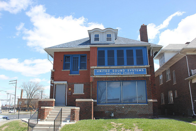 United Sound Systems Spring 2016